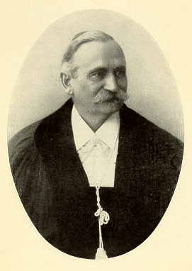 Eduard von Rindfleisch (1836–1908), German pathologist